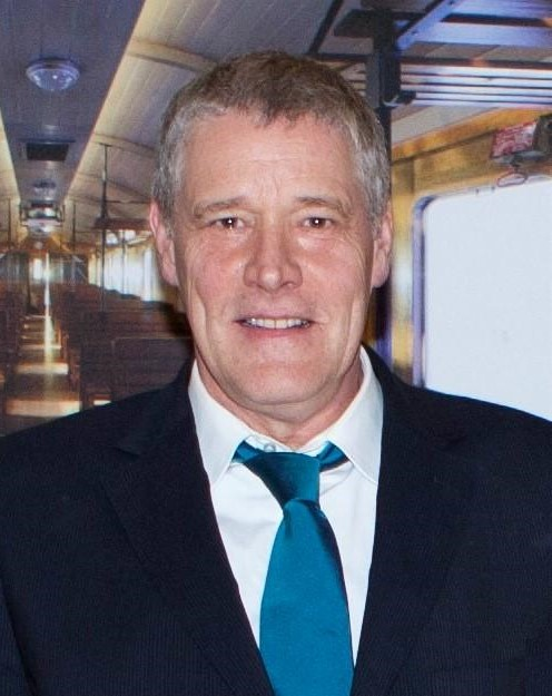 Christoph Fisser, February 2015